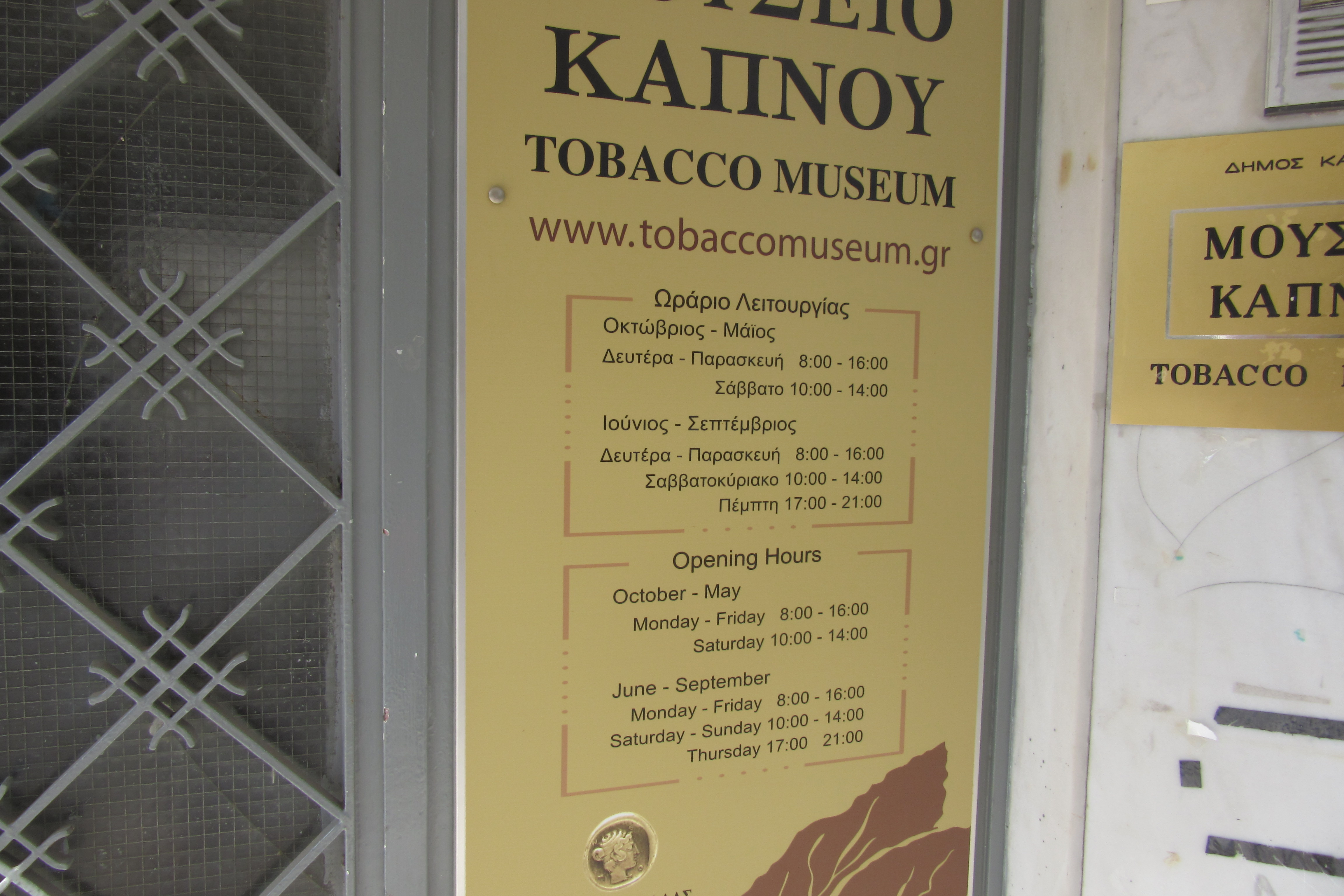 entrance of Tobacco museum, Kavala, Greece